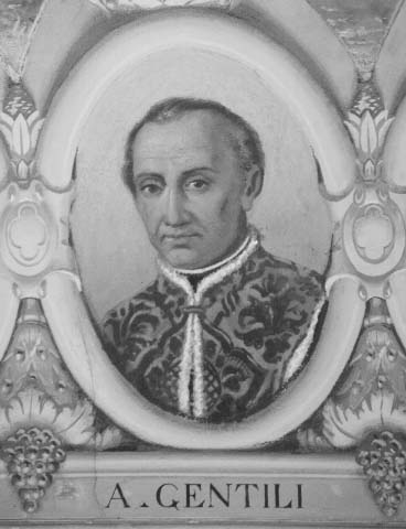 Portrait of Albericus Gentilis.